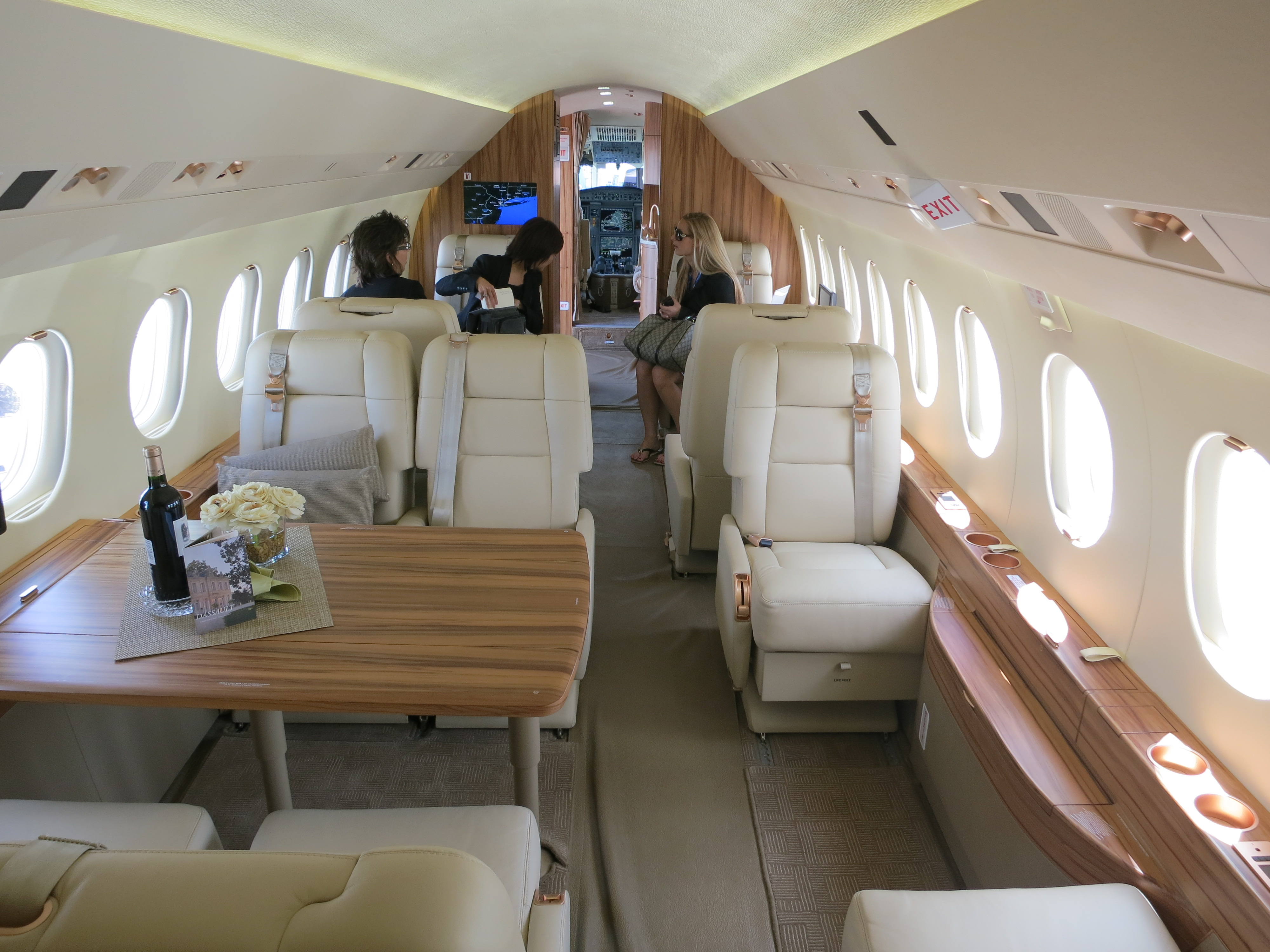 Interior of Dassault Falcon 2000 LX cabin